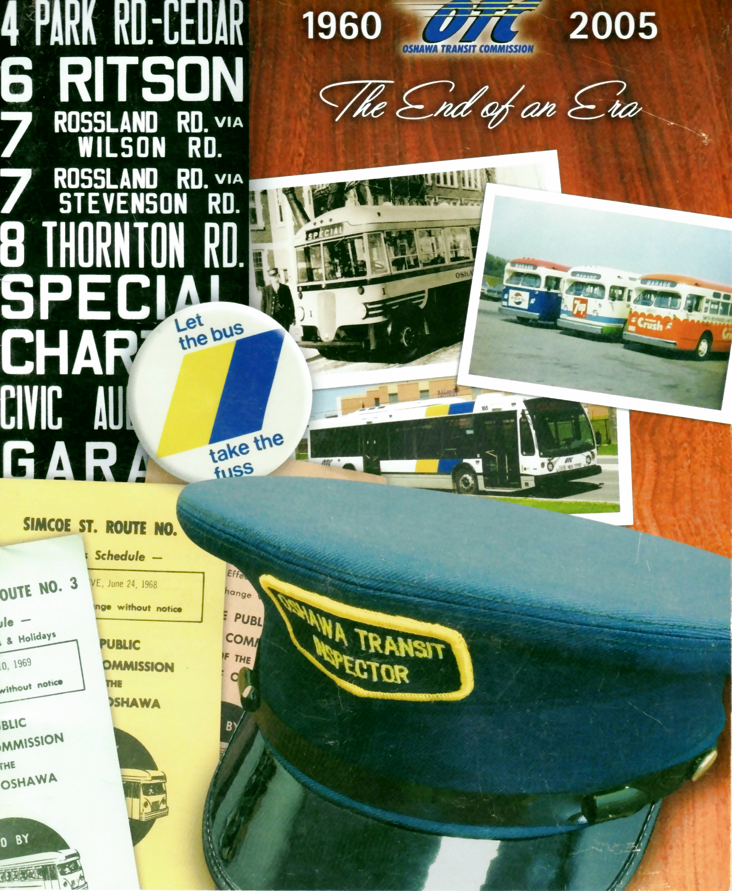 Final parting gift from the Oshawa Transit to its employees.